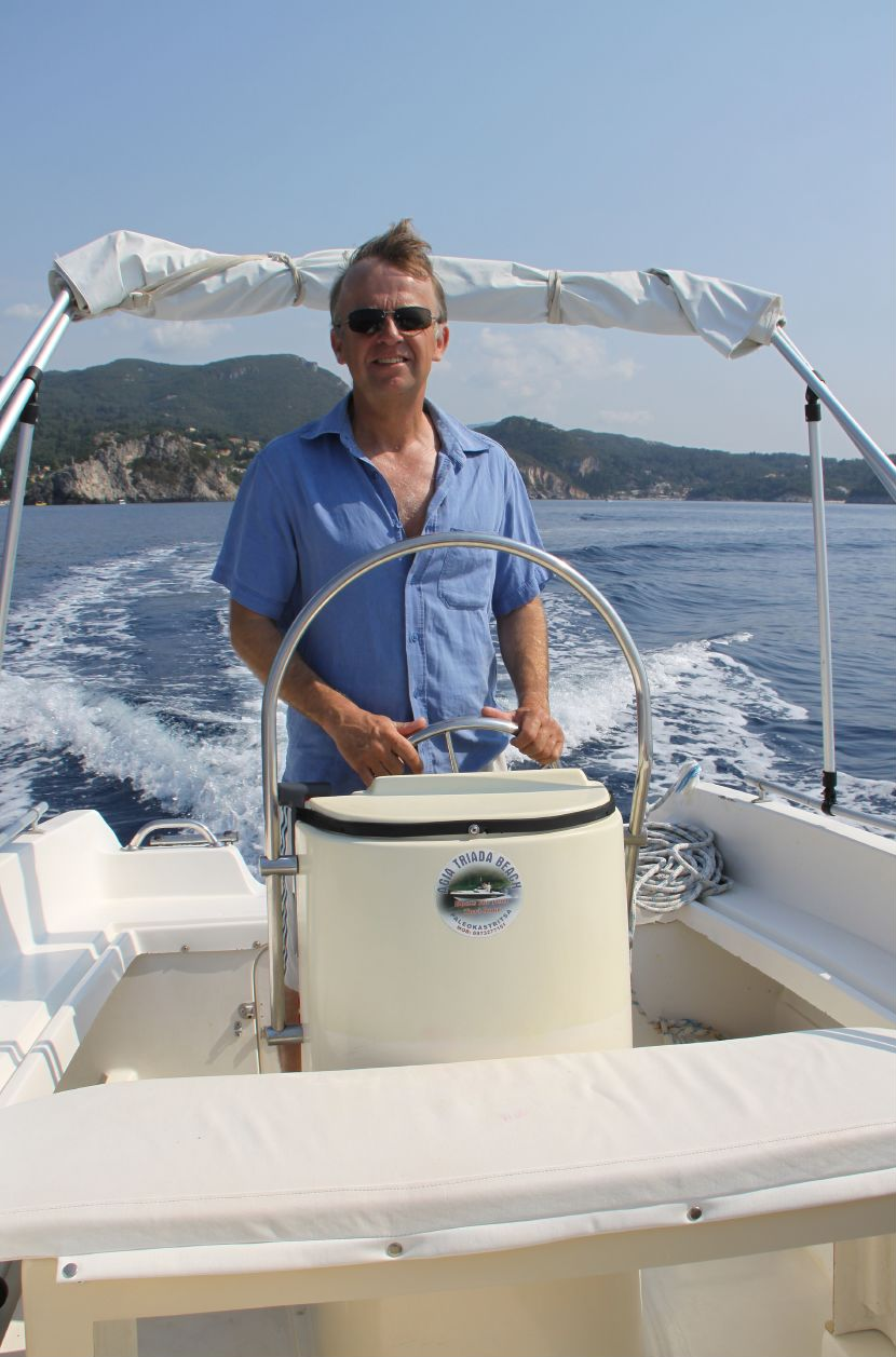 A bit different to Cardiff Bay!